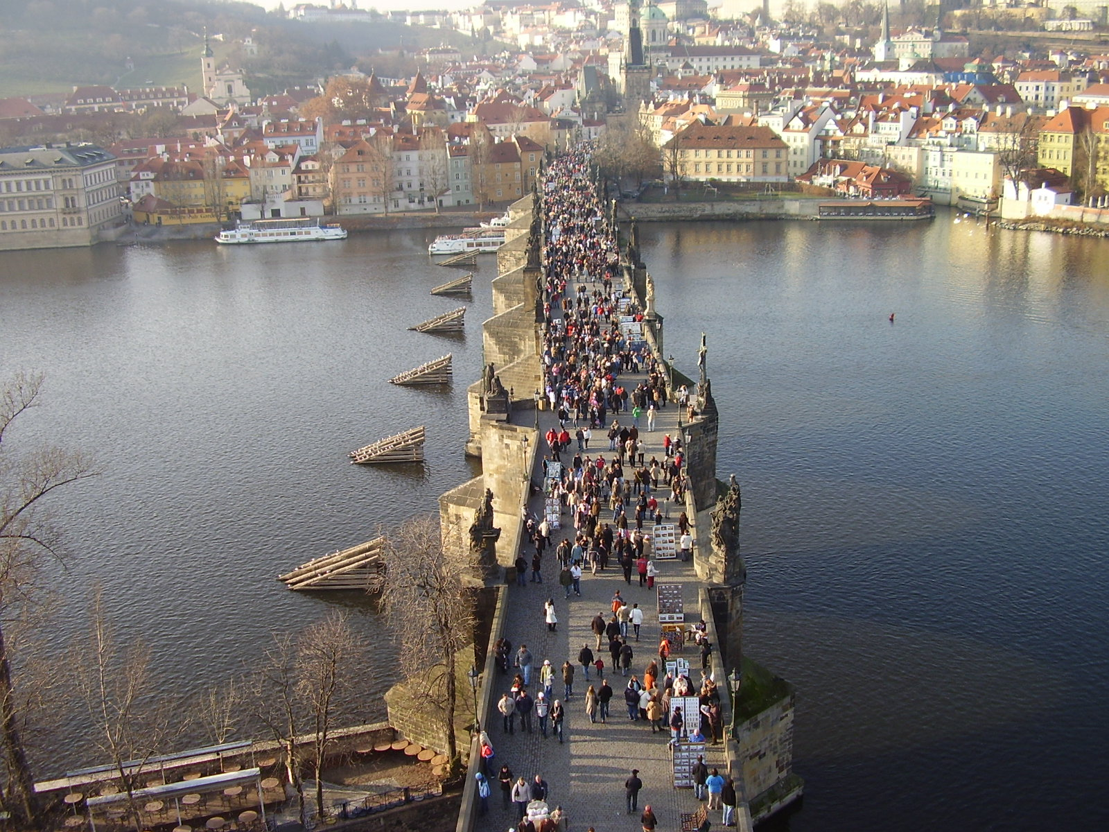 Prague november 2006